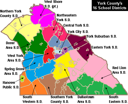 Color coded map of York County's 16 public school districts